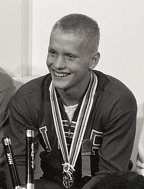 The American swimmer Don Schollander, the British swimmer Robert McGregor and the German swimmer Hans-Joachim Klein are being interviewed by journalists during the Tokyo Olympics. Tokyo, October 1964